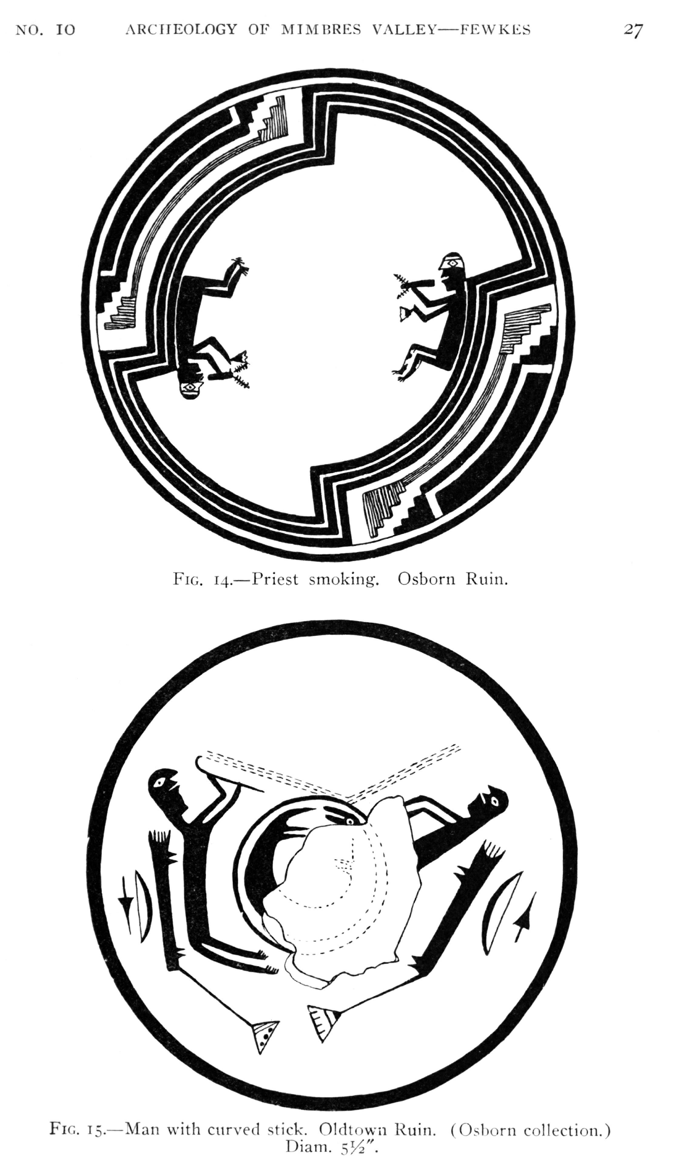 Archaeology of the lower Mimbres vallwy, New Mexico (with eight plates) by J. Walter Fewkes ...